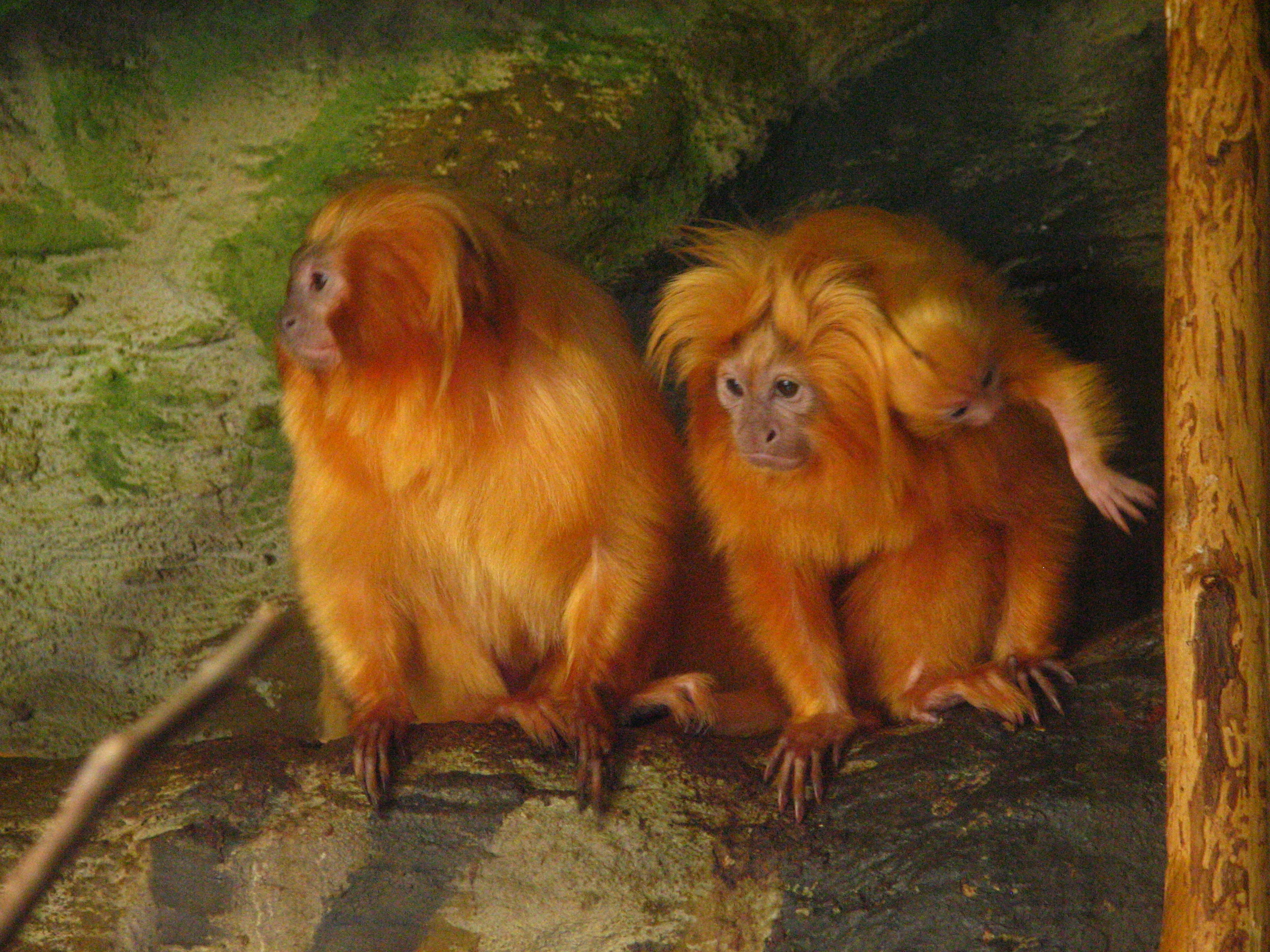 Golden Lion Tamarin ZOO Dvůr Králové, Czech Republic